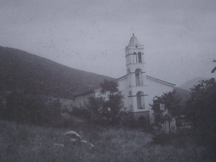 Church of St Nicolas in Dmbeni/ Dendrohori, Greece